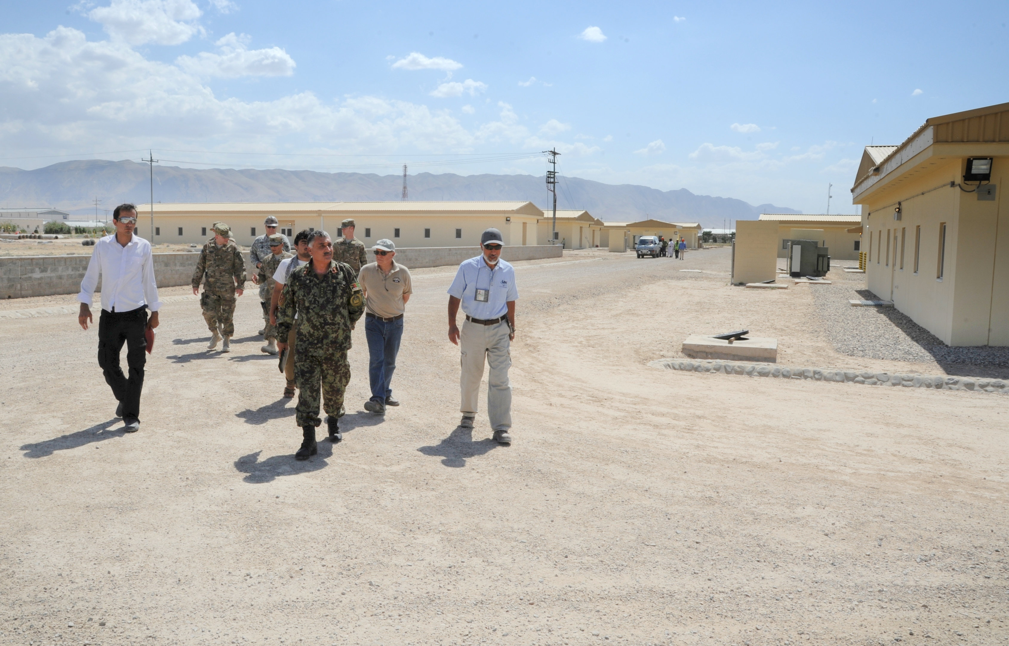 CAMP MIKE SPANN, Afghanistan, Afghan Col. Mohammed Salim, the 209th Afghan National Army Corps head facility engineer, and Rafael Villegas, an End User Monitor Team member deployed to Spann, finish inspecting barracks buildings at Camp Shaheen which were signed over to the 209th Corps June 27. The barracks will house the 1st Kandak, 3rd Brigade, 209th Corps.